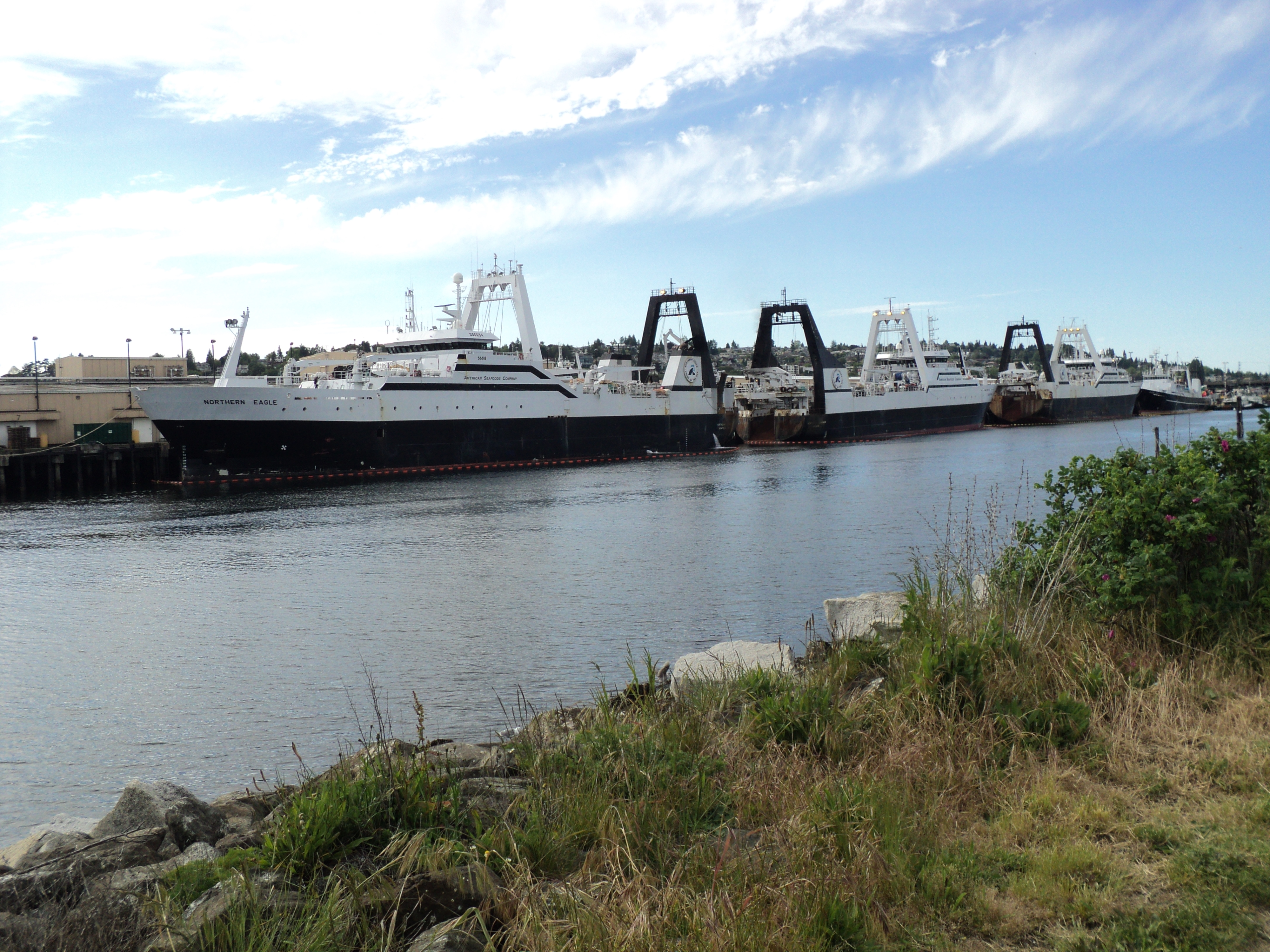 View of fishing trawlers lined up along Smith Cove of Elliott Bay, near the Seattle, Washington, neighborhood known as Interbay. NORTHERN EAGLE IMO Number: 6701462 MMSI Number: 368085000 Callsign: WEME Length: 104 0m Beam: 15 m